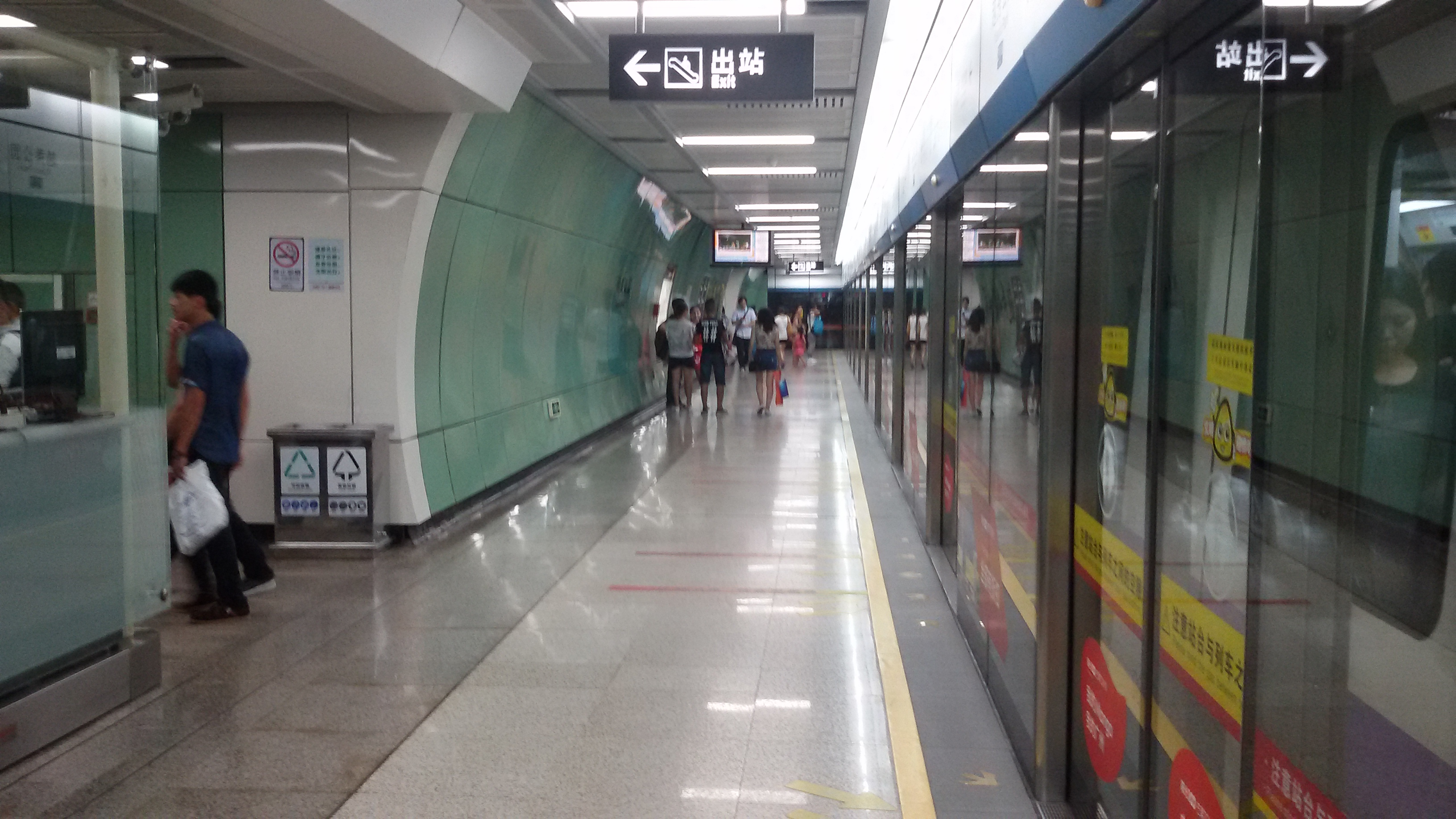 Platform for Yuexiu Park Station 粵語: 越秀公園站嘅站台